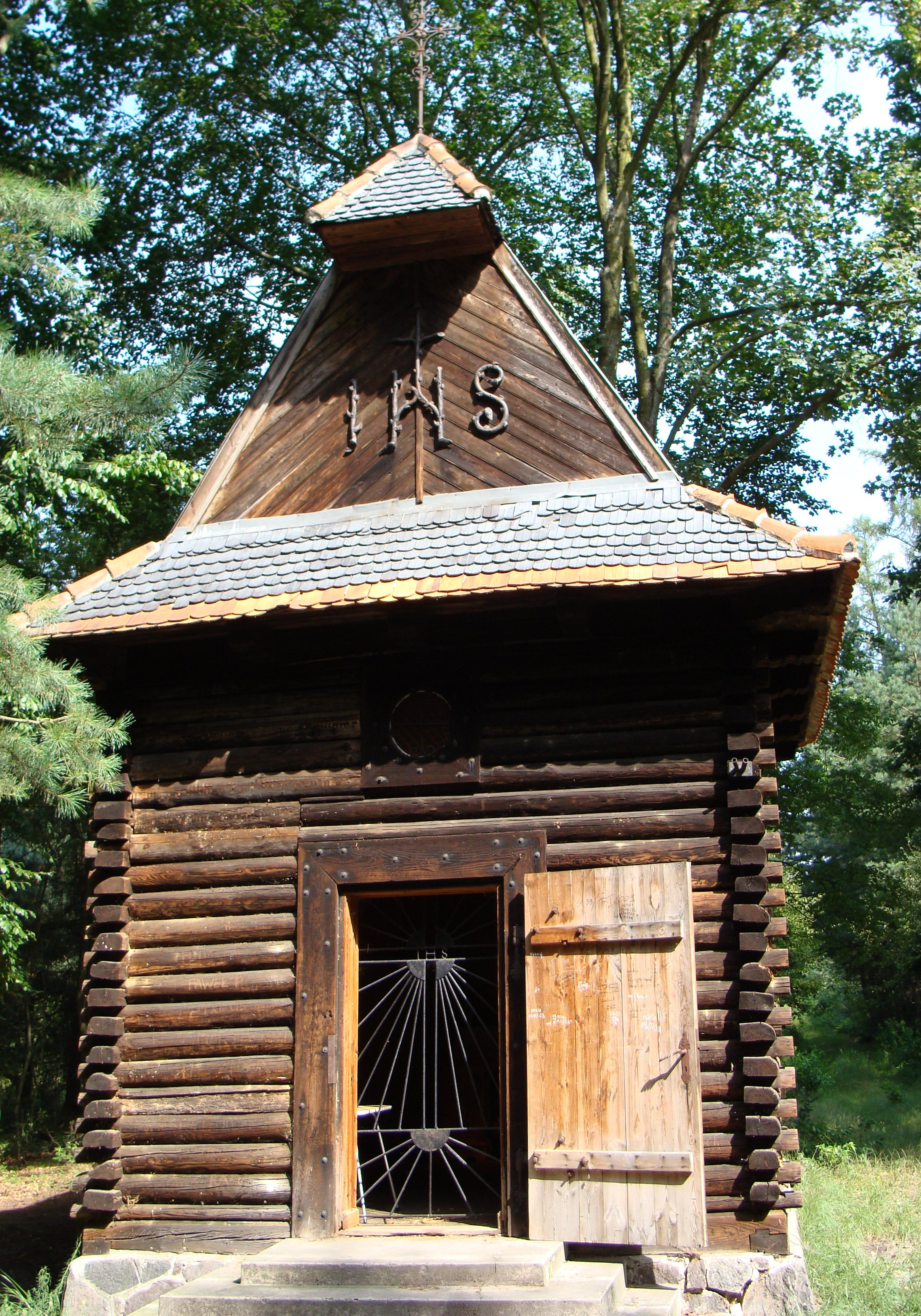 Wyrzeka, shrine in forest.